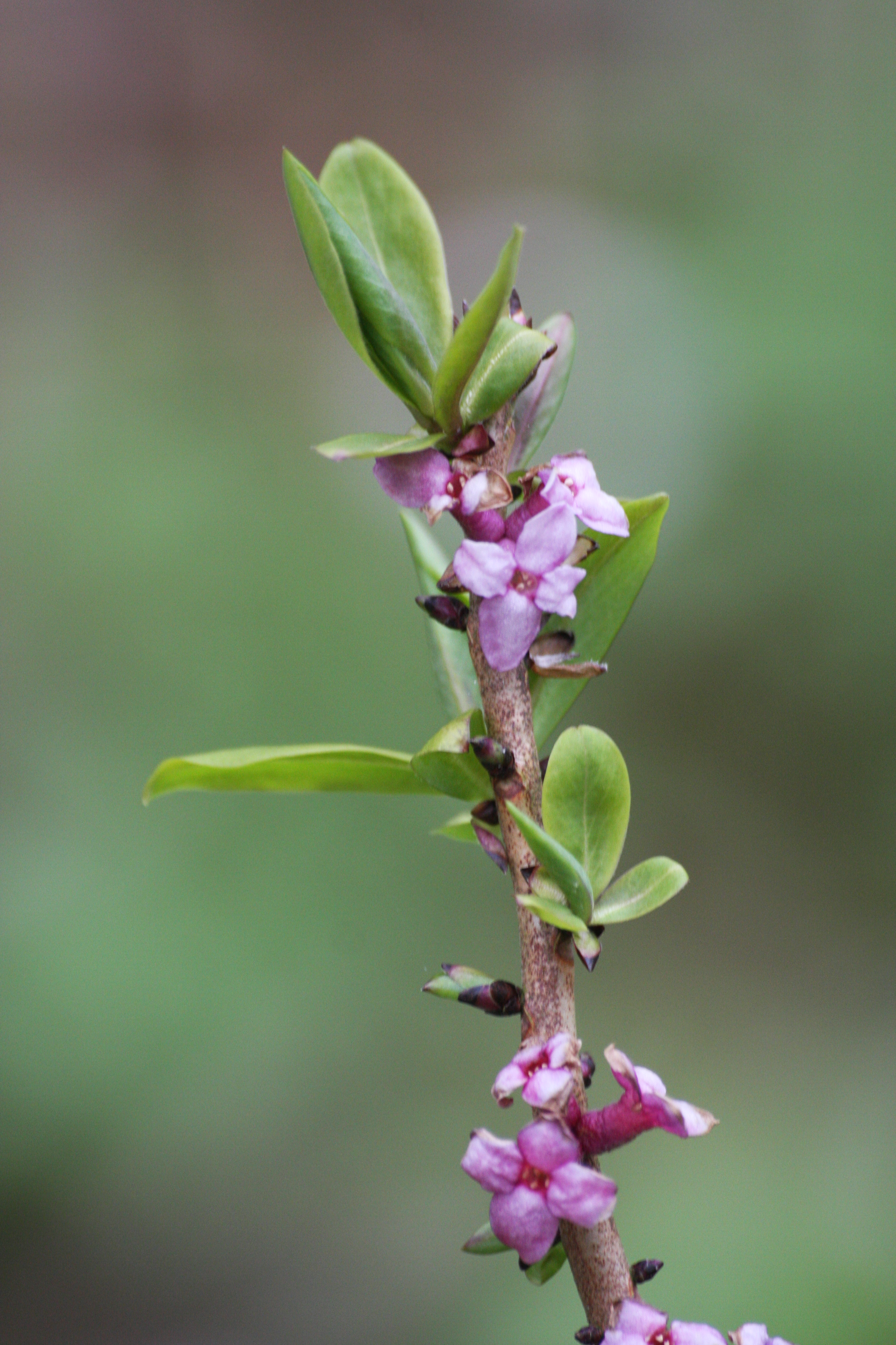 Daphne mezereum, flowering bud in Ersvika (Hurum munic.), Buskerud county (Norway).